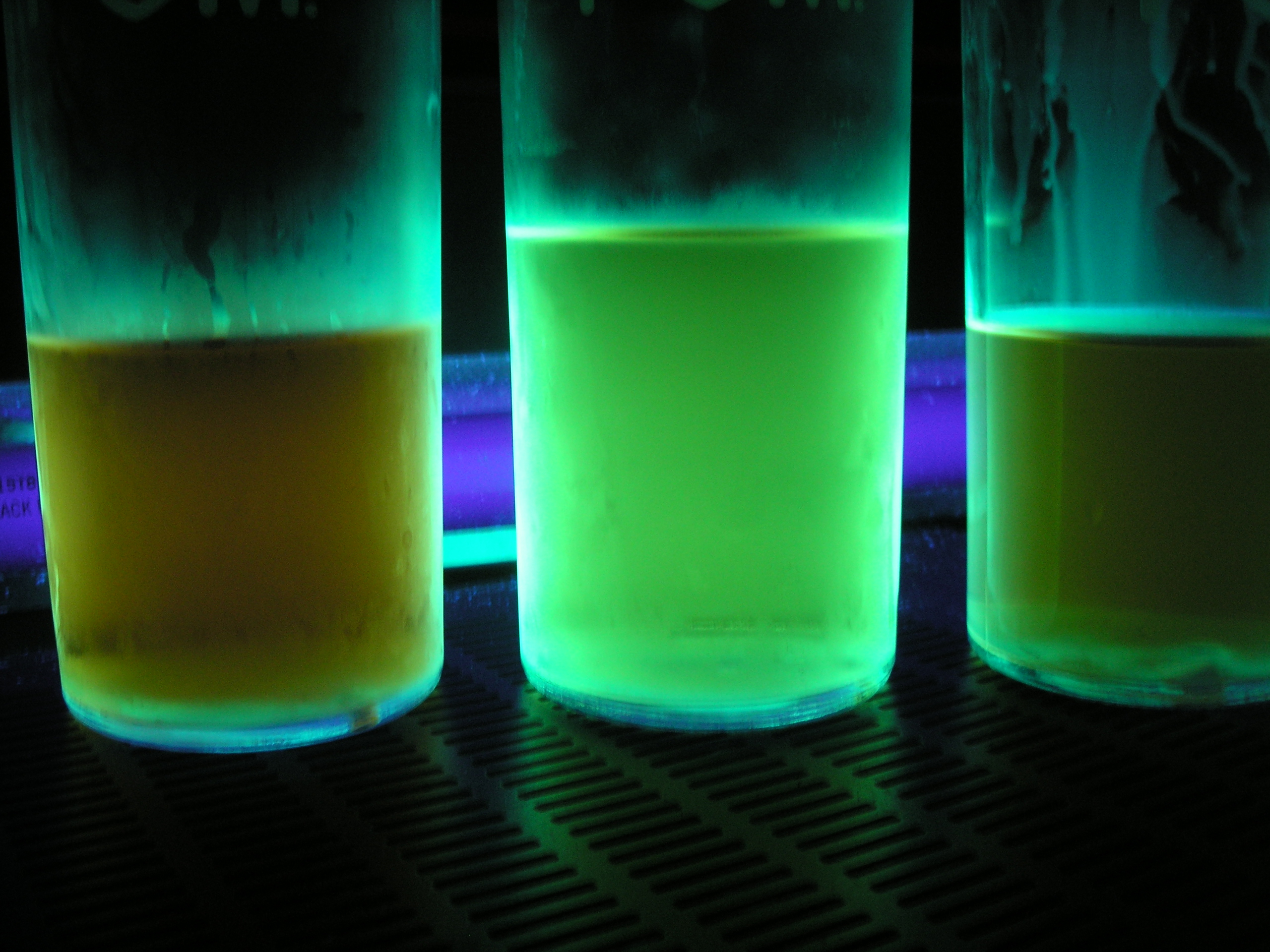 Three extractions of Peganum harmala seeds. Both of Peganum harmala's major carbolines, harmaline and harmine, are extremely fluorescent compounds. When making an extraction some use a blacklight in order to determine if all of the compounds were extracted from the material, with each pull from the seeds the brew should be less and less fluorescent. This is wrong, if the concentration is to strong then the liquid will look darker and not brighter. If you take a some drops of that strong liquid in fresh water it will look more bright. I think it comes because the harmine/harmal absorbs all the UV light on the outside of the liquid.